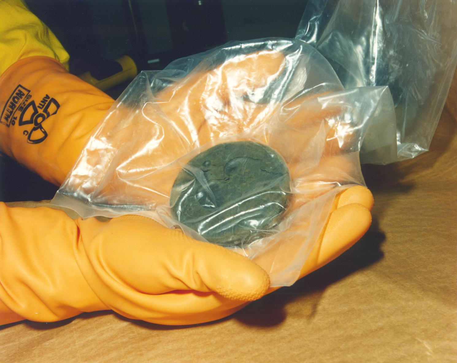 A button of plutonium processed at the Savannah River Site, original caption: In the past, solutions transferred from the F Canyon were concentrated and purified in the FB Line. Then, in subsequent operations, the plutonium was precipitated, filtered, dried and finally reduced to metal form, called a button. It is about the size of a hockey puck. Processing equipment is enclosed in gloveboxes so that employees and operating areas are not exposed to the radioactive material. Some operations are automated.